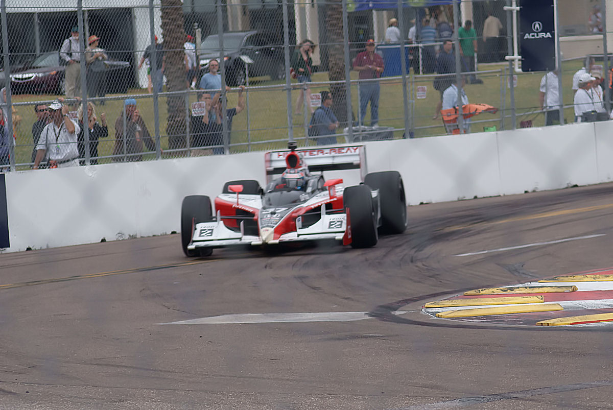 Ryan Hunter-Reay driving the Dallara IR5 for Andretti Autosport at the 2010 St. Petersburg Grand Prix. Round 1 of the 2010 IndyCar Series.